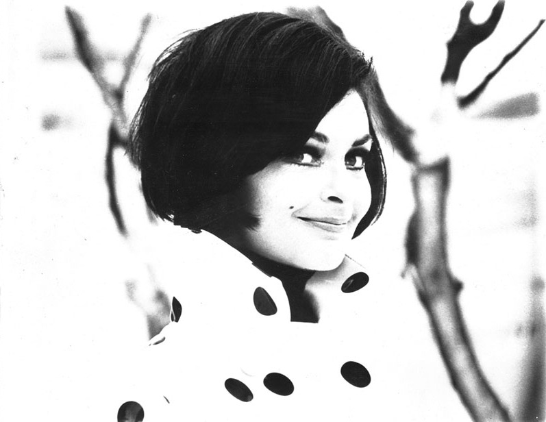 Modeling shot circa 1965